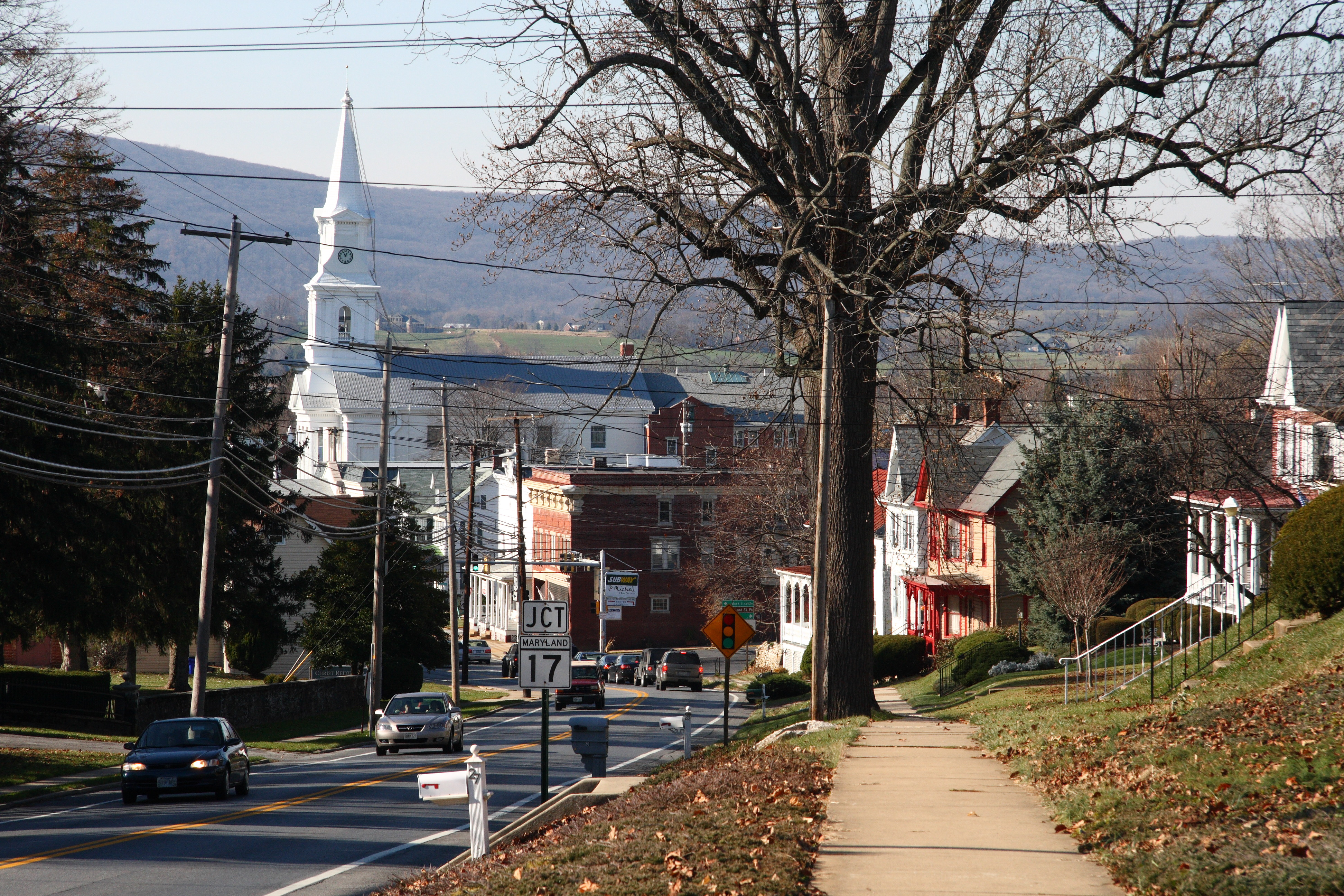 West Main Street looking downtown, Middletown, Maryland, USA